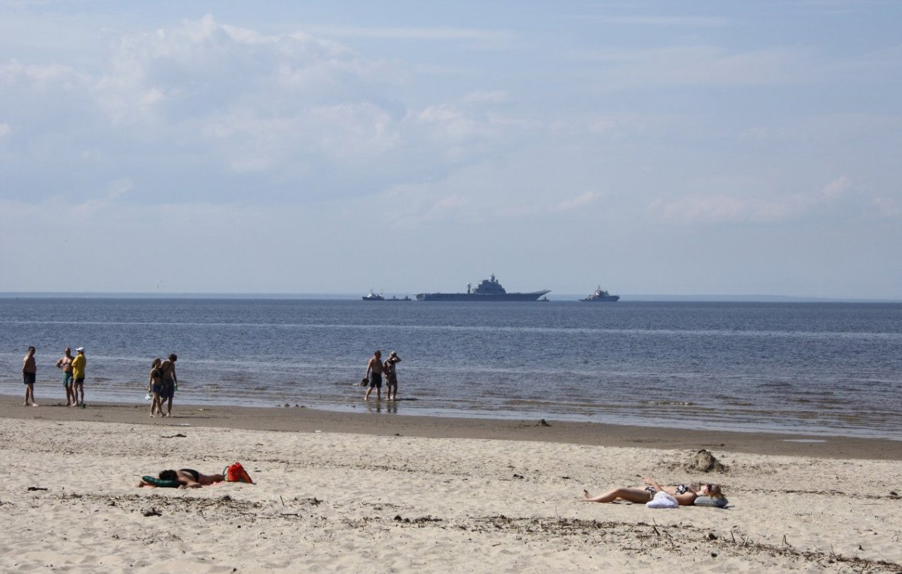 The aircraft carrier Admiral Gorshkov undergoing sea trials in Severodvinsk on 3 July 2013.